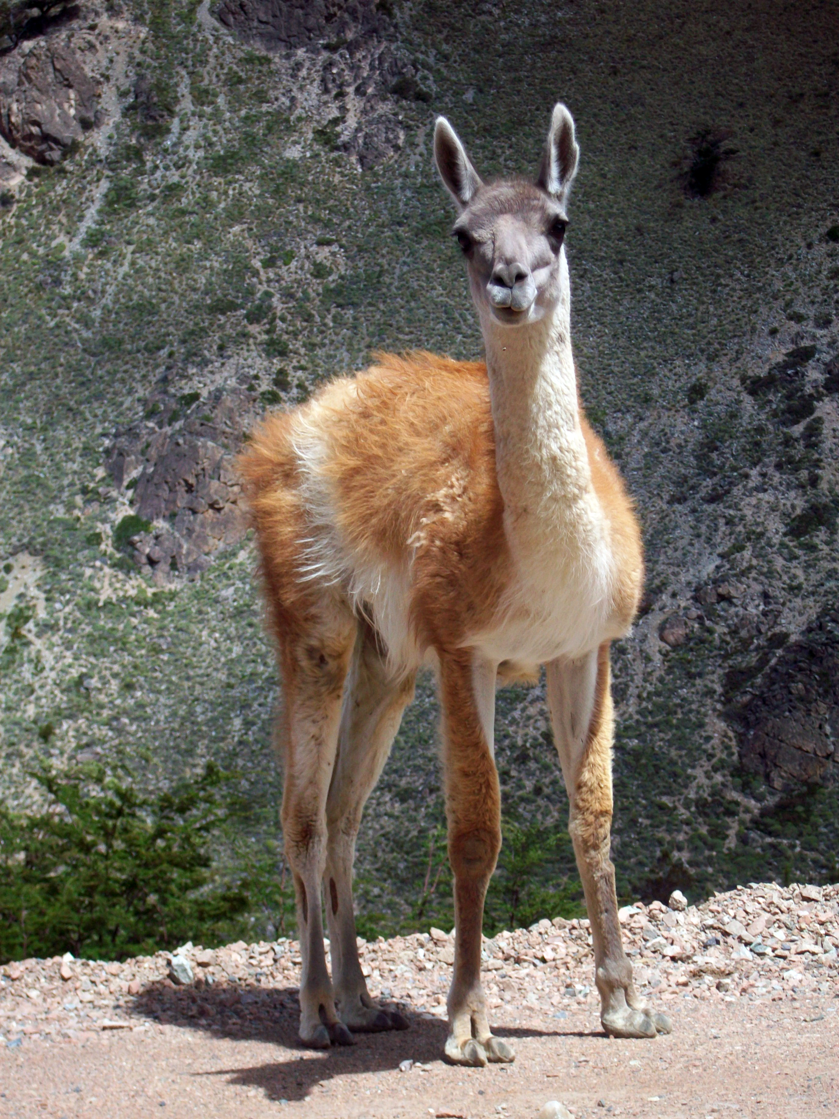 Guanaco camino al centro de ski La Hoya, Esquel, Argentina